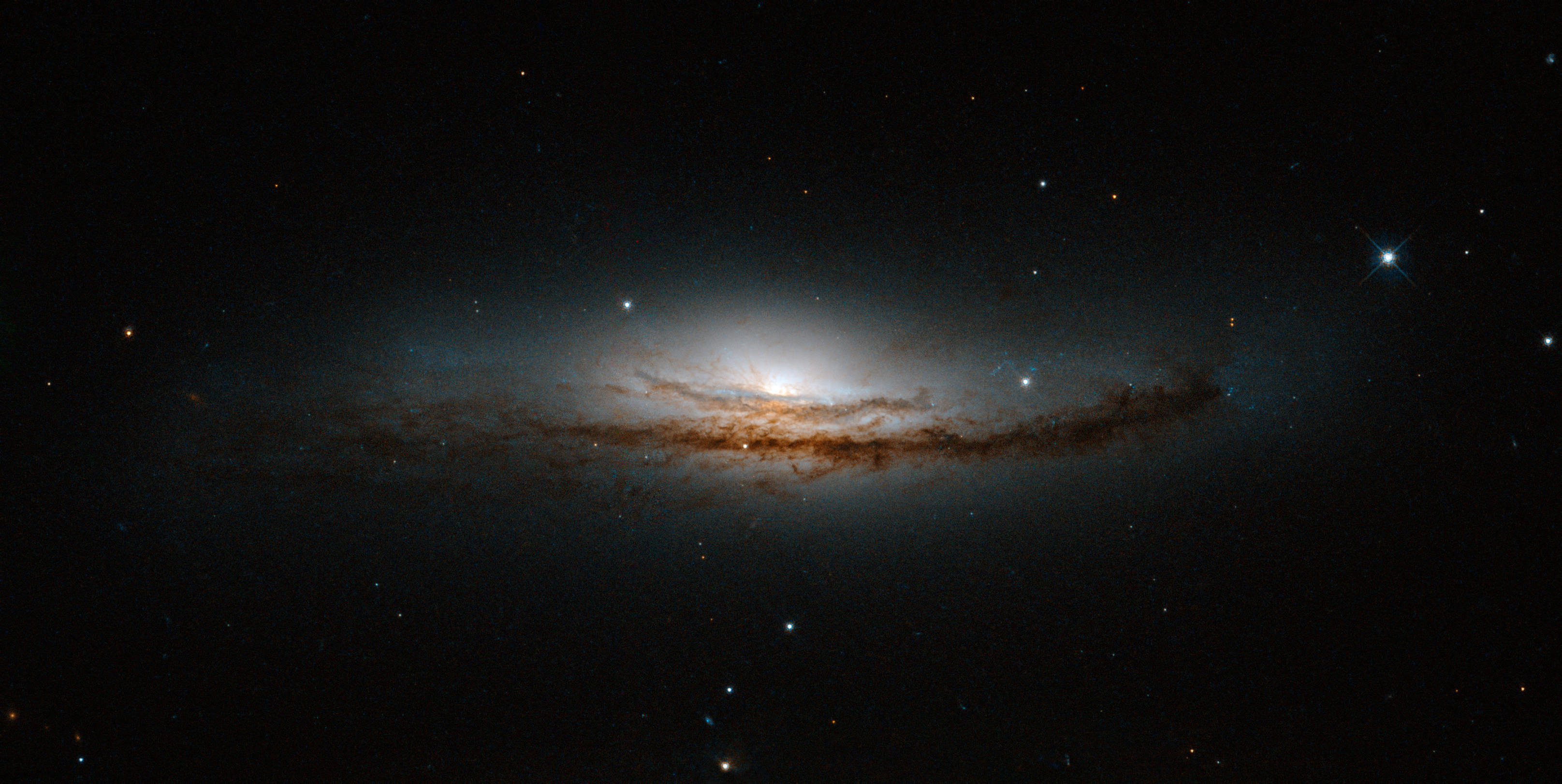 This new Hubble image is centred on NGC 5793, a spiral galaxy over 150 million light-years away in the constellation of Libra. This galaxy has two particularly striking features: a beautiful dust lane and an intensely bright centre — much brighter than that of our own galaxy, or indeed those of most spiral galaxies we observe. NGC 5793 is a Seyfert galaxy. These galaxies have incredibly luminous centres that are thought to be caused by hungry supermassive black holes — black holes that can be billions of times the size of the Sun — that pull in and devour gas and dust from their surroundings. This galaxy is of great interest to astronomers for many reasons. For one, it appears to house objects known as masers. Whereas lasers emit visible light, masers emit microwave radiation [1]. Naturally occurring masers, like those observed in NGC 5793, can tell us a lot about their environment; we see these kinds of masers in areas where stars are forming. In NGC 5793 there are also intense mega-masers, which are thousands of times more luminous than the Sun. A version of this image was submitted to the Hubble’s Hidden Treasures image processing competition by contestant Judy Schmidt. Notes: [1] This name originates from the acronym Microwave Amplification by Stimulated Emission of Radiation. Maser emission is caused by particles that absorb energy from their surroundings and then re-emit this in the microwave part of the spectrum.